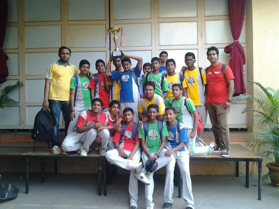 The winner cup with St Thomas team